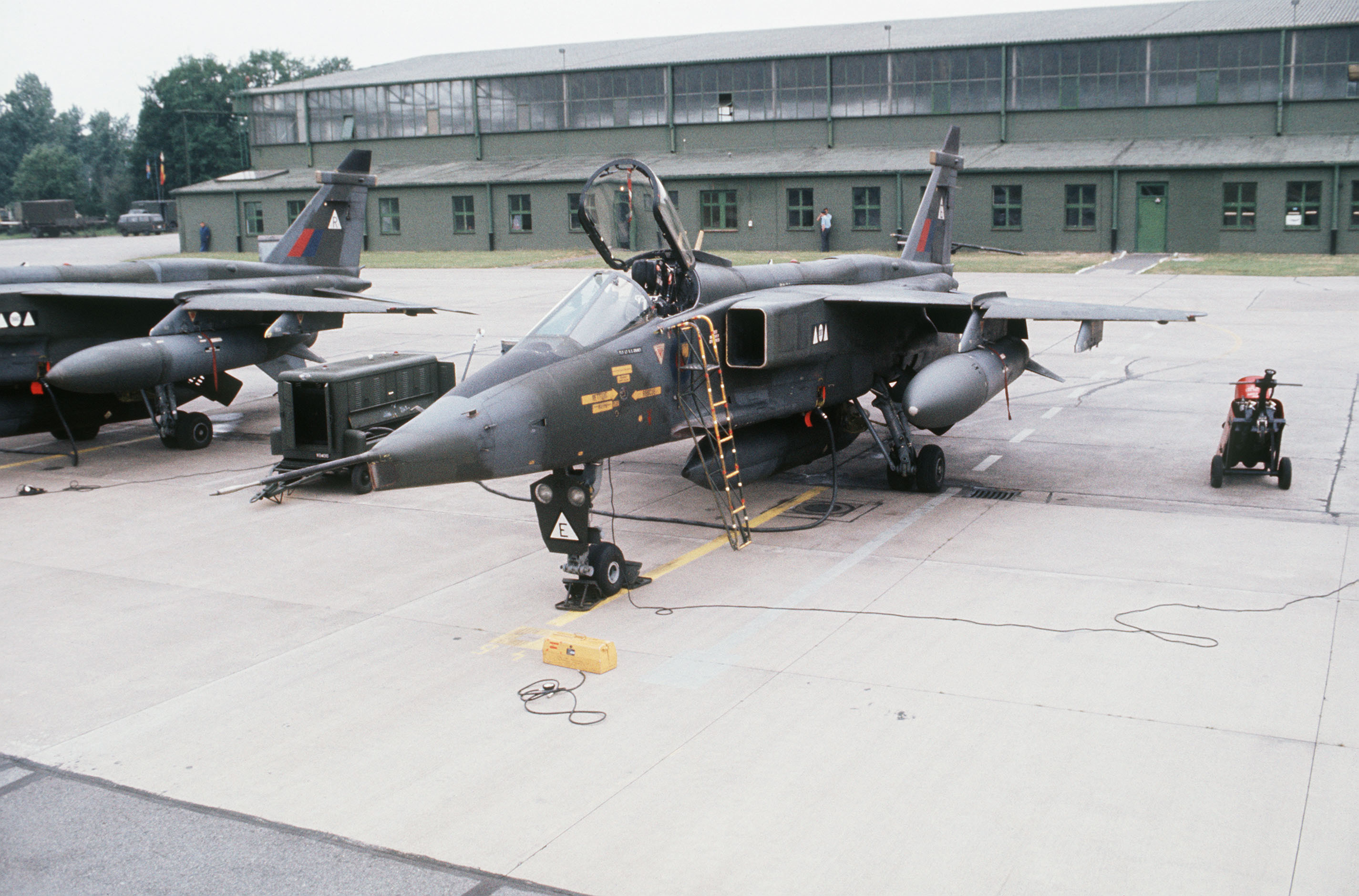 A British SEPECAT Jaguar GR.1 aircraft of No. 2 Squadron RAF parked on the flight line during "Tactical Air Meet '78" at RAF Wildenrath, Federal Republic of Germany, on 15 May 1978.